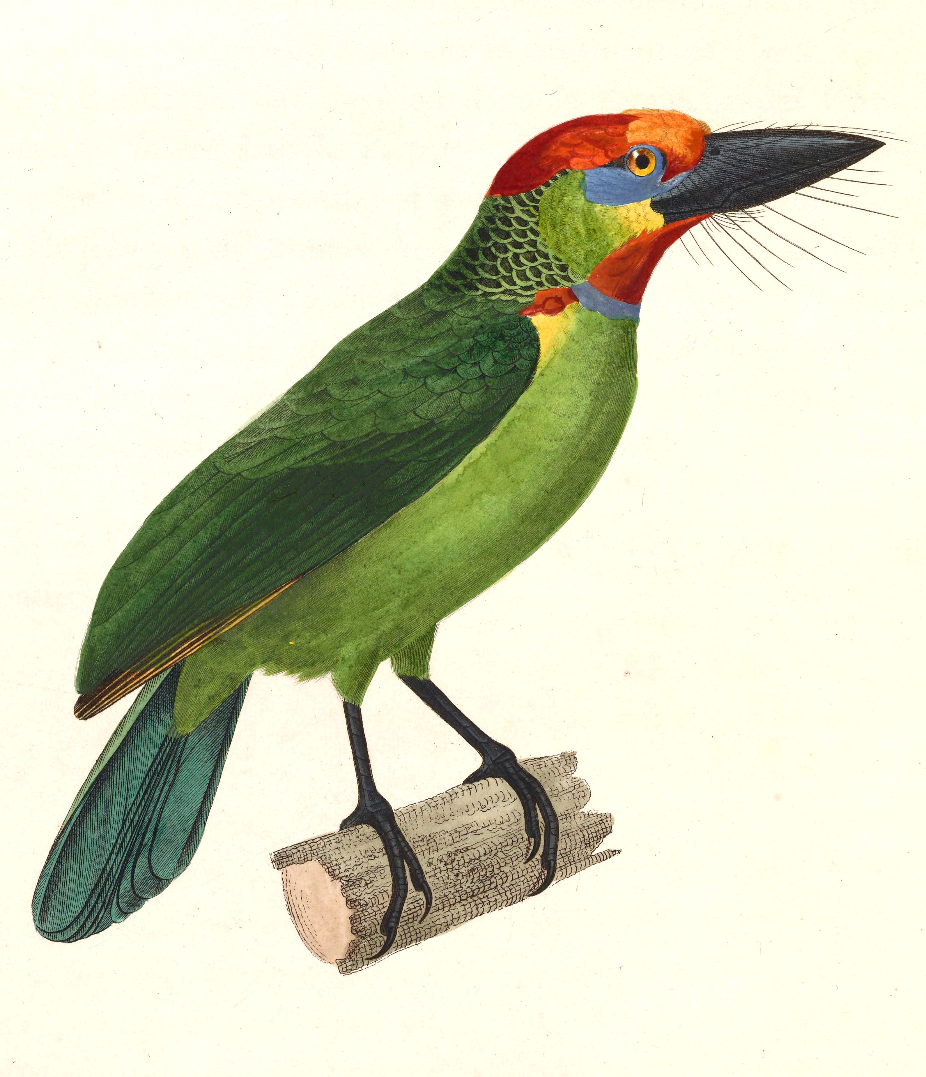 « Bucco mystacophanos » = Megalaima mystacophanos (Red-throated Barbet) - adult